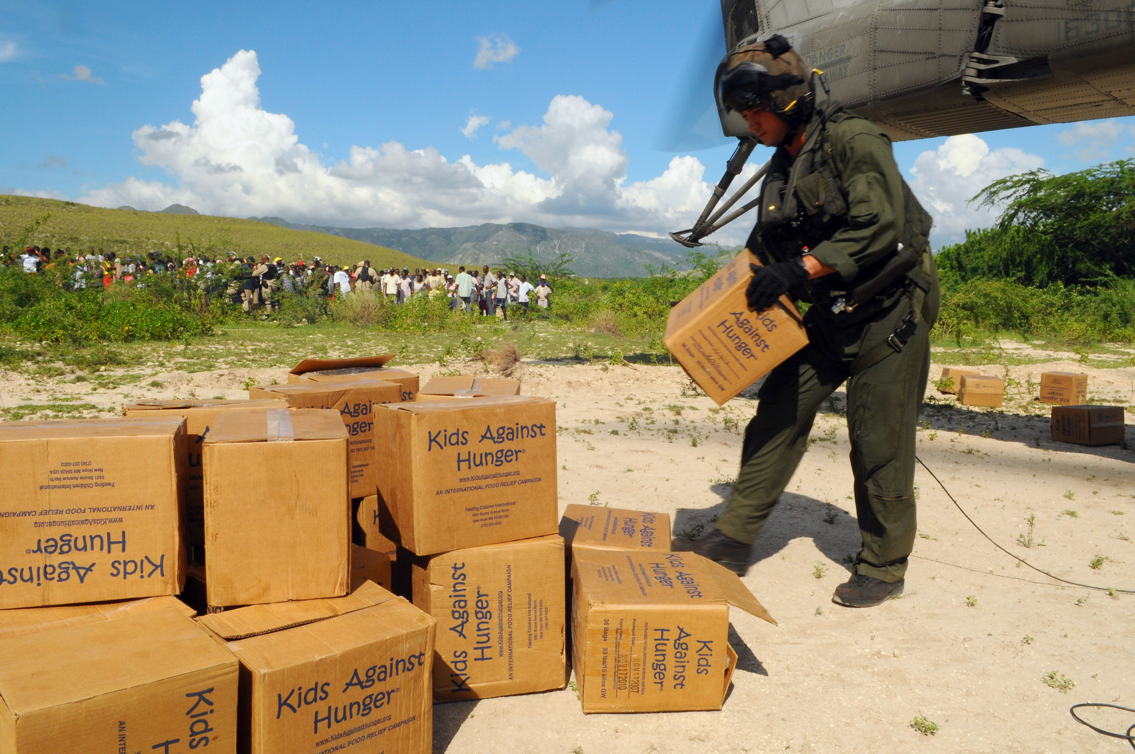 MAROSE, Haiti (Sept. 20, 2008) Aircrew members assigned to Marine Heavy Helicopter Squadron (HMH) 464, the "Condors," deliver food donated by Project Handclasp and Kids Against Hunger to a remote area of Haiti. HMH-464 is embarked aboard the amphibious assault ship USS Keasarge (LHD3). America's contributions to relief efforts are being coordinated by the United States Agency for International Development (USAID) and its Office of U.S. Foreign Disaster Assistance. (U.S. Navy photo by Mass Communication Specialist Seaman Apprentice Joshua Adam Nuzzo/Released)